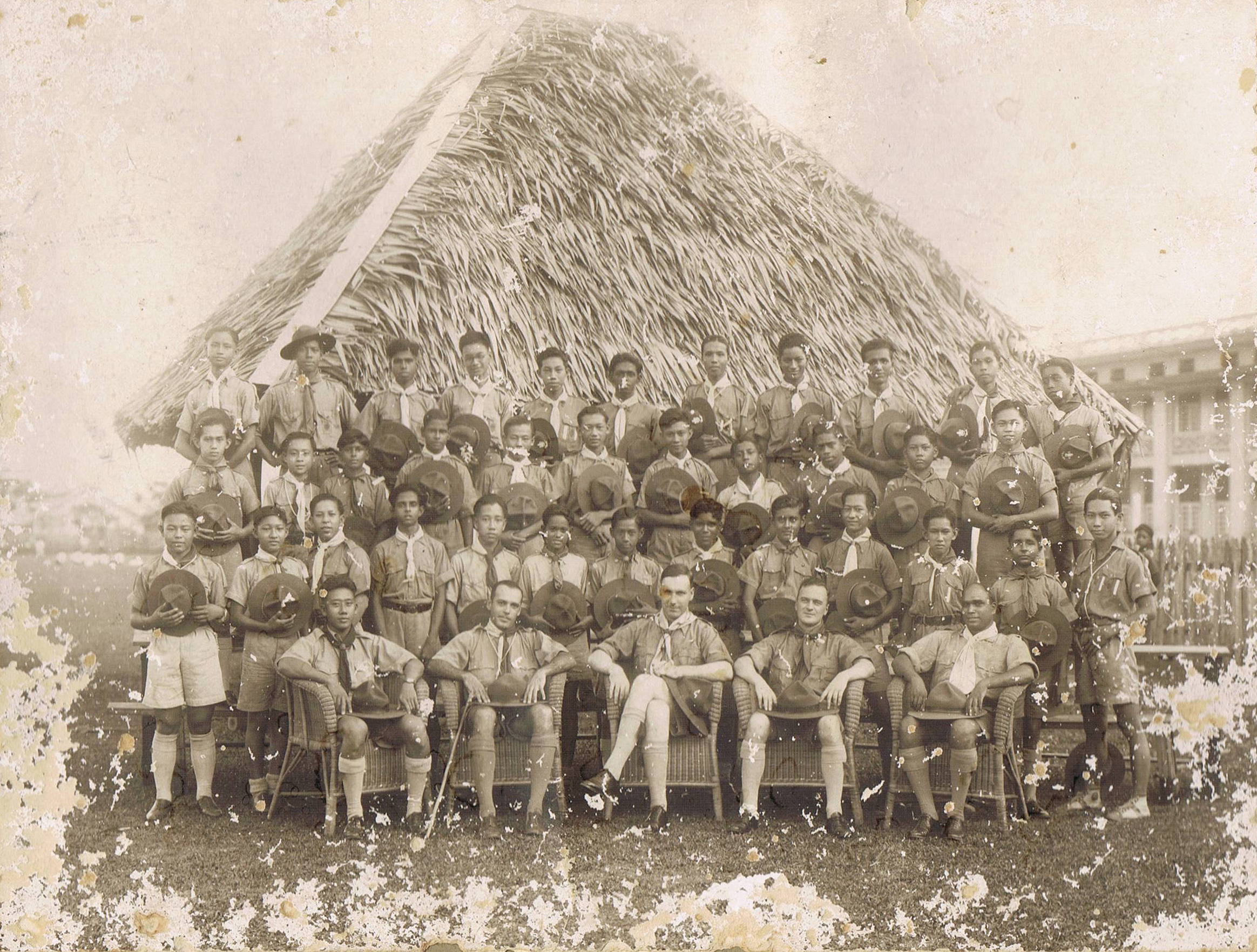 The 6th Troop of the Arrow Scout Group at Victoria School, Singapore.